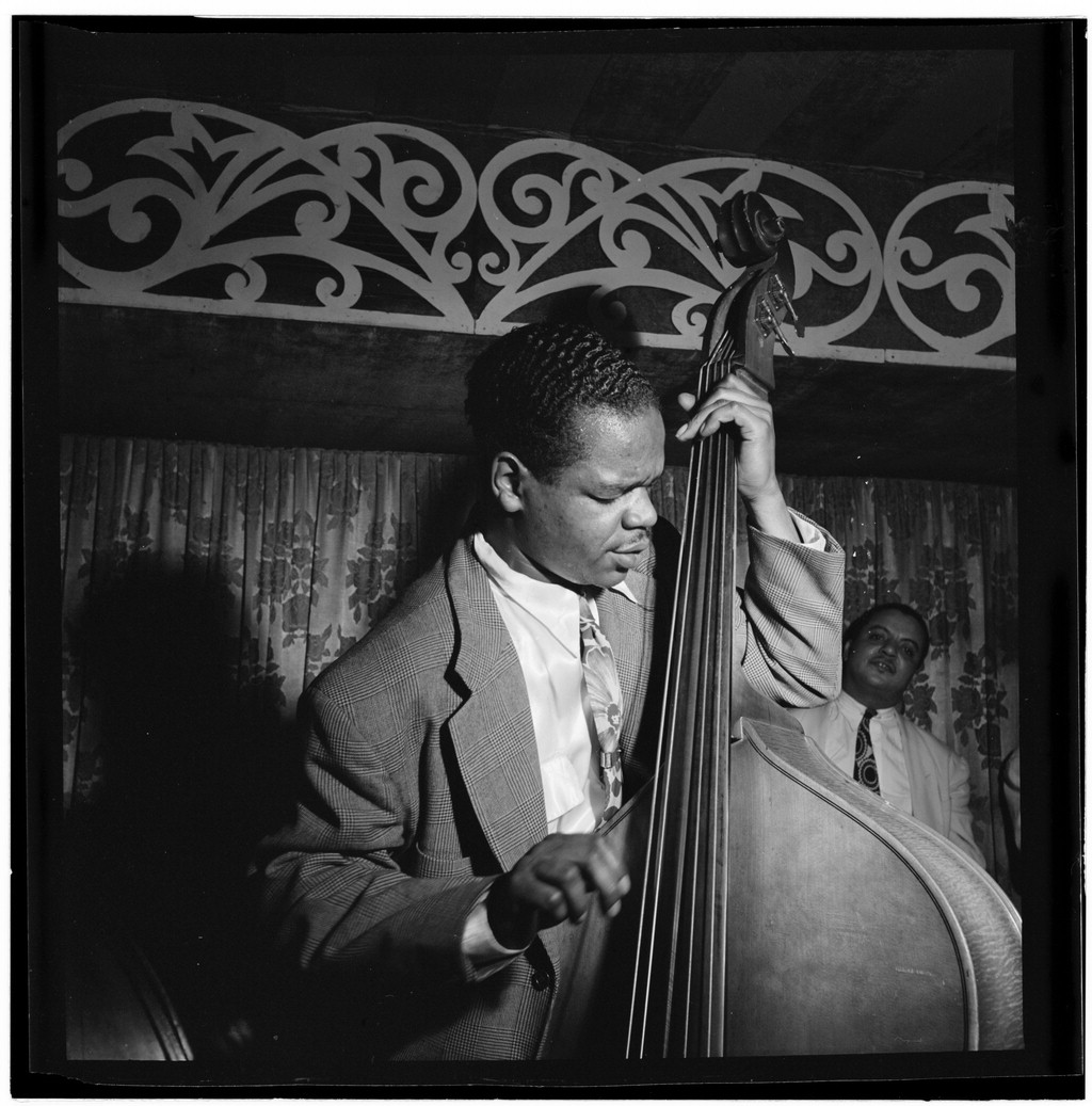 Junior Raglin, Aquarium, New York, N.Y., ca. November 1946 (Photograph by William P. Gottlieb)